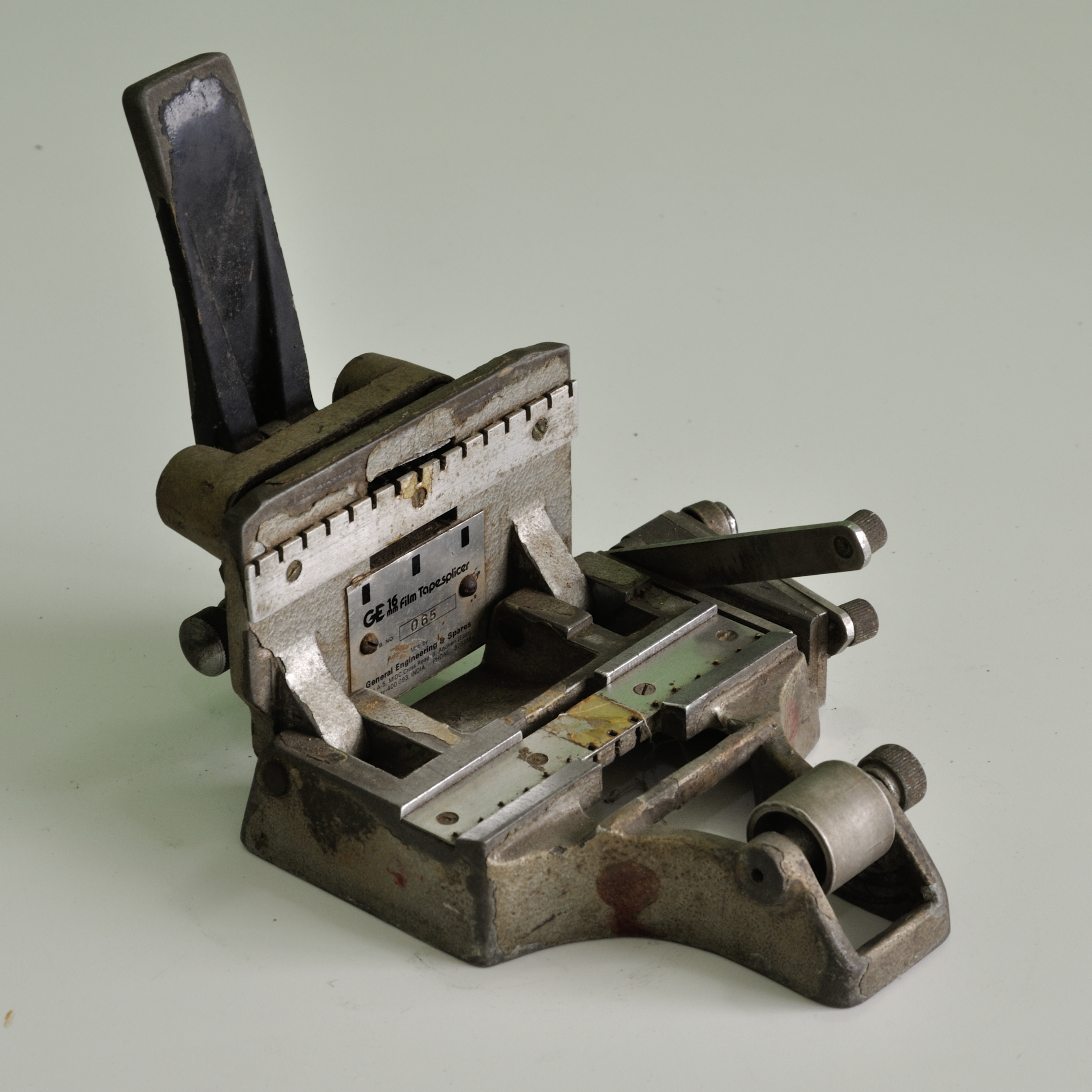 Cinematographic artifact that used in Kolkata.